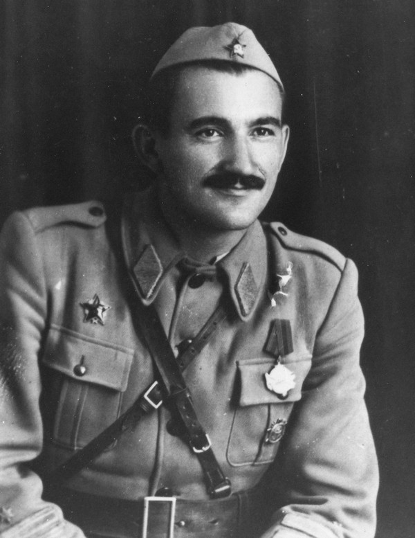 National hero of Yugoslavia Српски (ћирилица): Народни херој Југославије